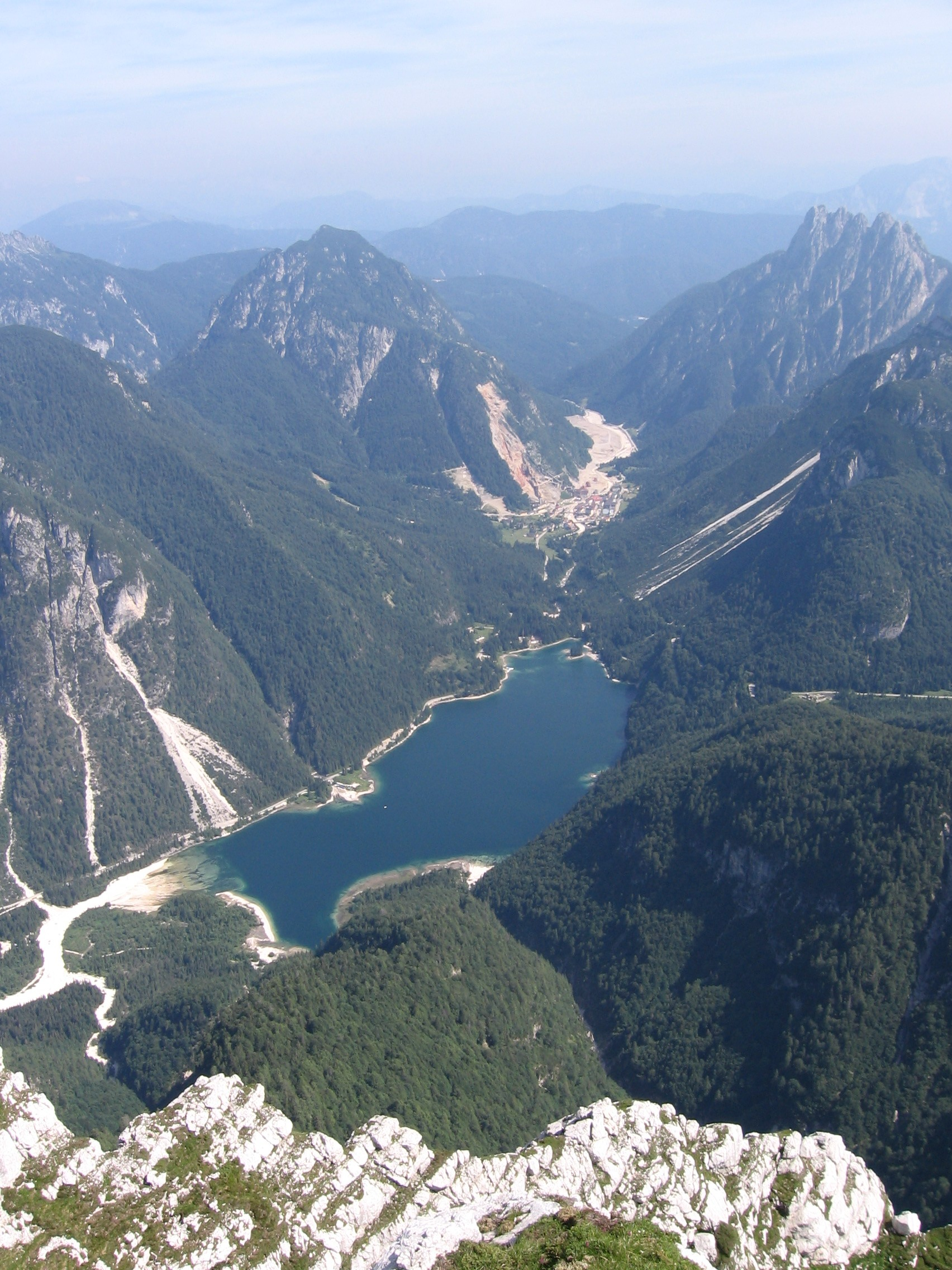 Val Rio del Lago / Jezerska dolina in northeastern part of Italy, with Lago di Predil/Rabeljsko jezero and town of Cave del Predil/Rabelj, from mt. Jerebica